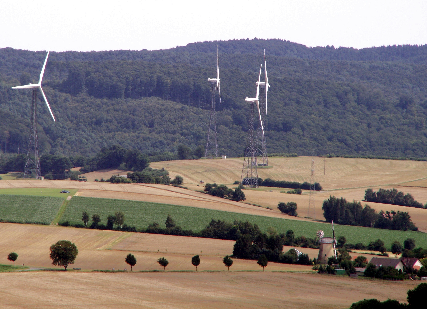 2007: Historical Windmill and modern wind turbines in Bentorf (Germany OWL) near Vlotho